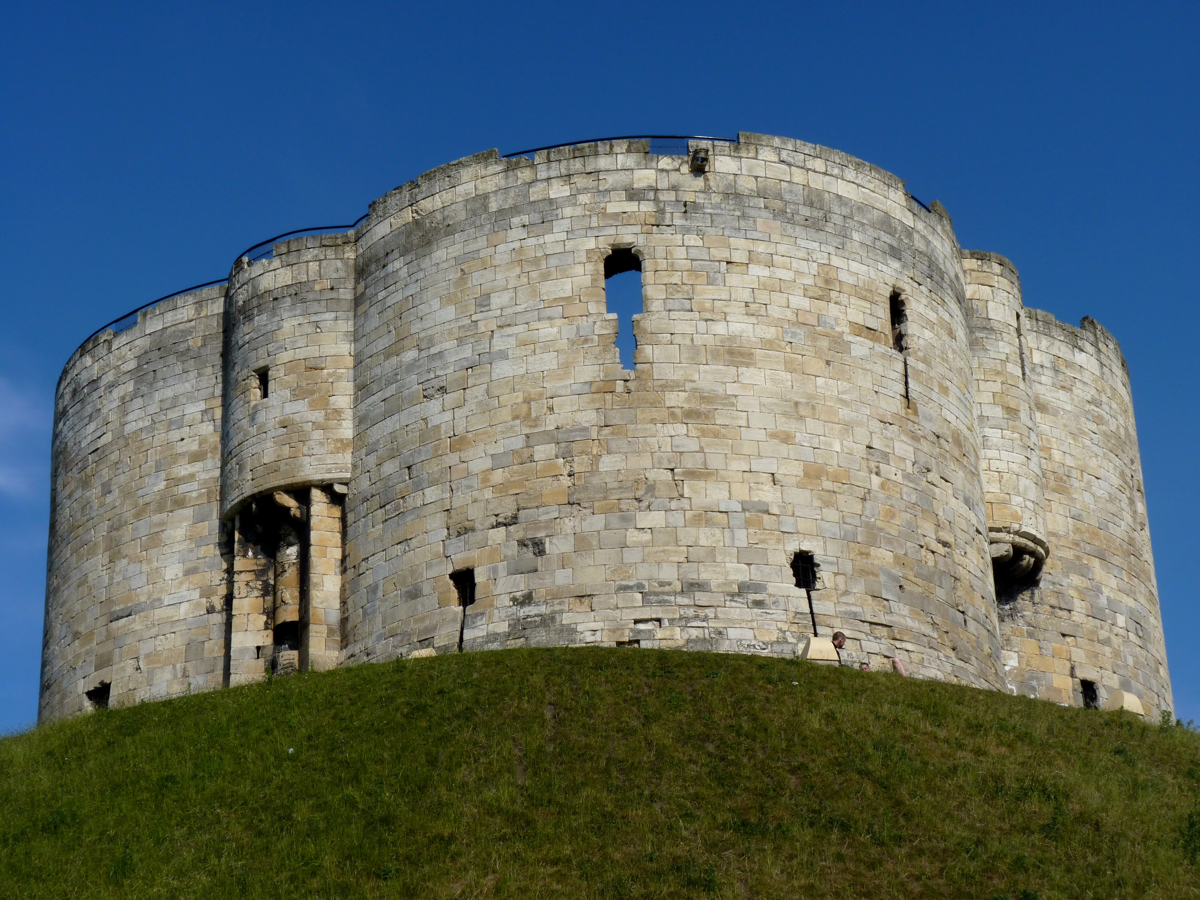 The Clifford's Tower was the part of York Castle.